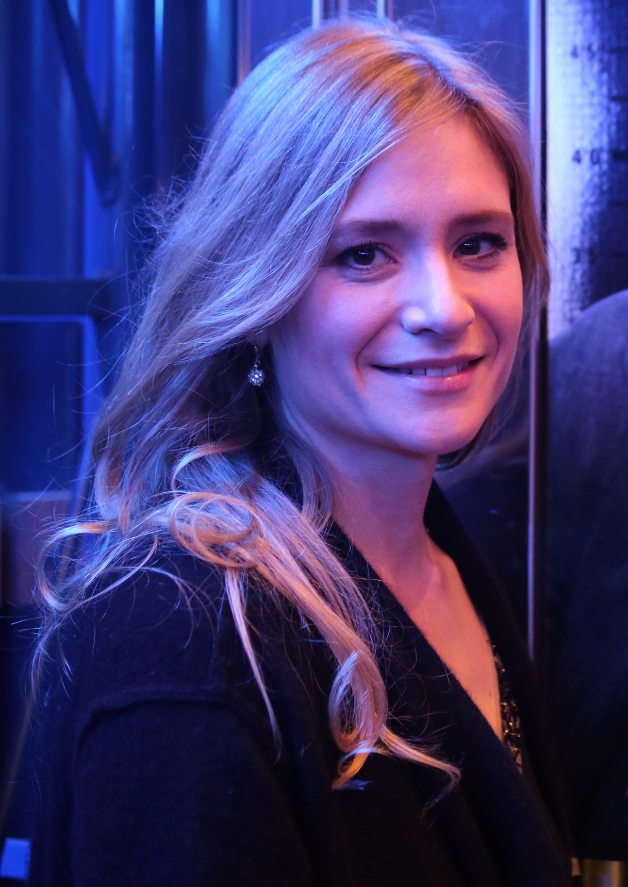 Julia Jentsch at the premiere of The Strange Case of Wilhelm Reich, Vienna International Film Festival 2012, Gartenbaukino.